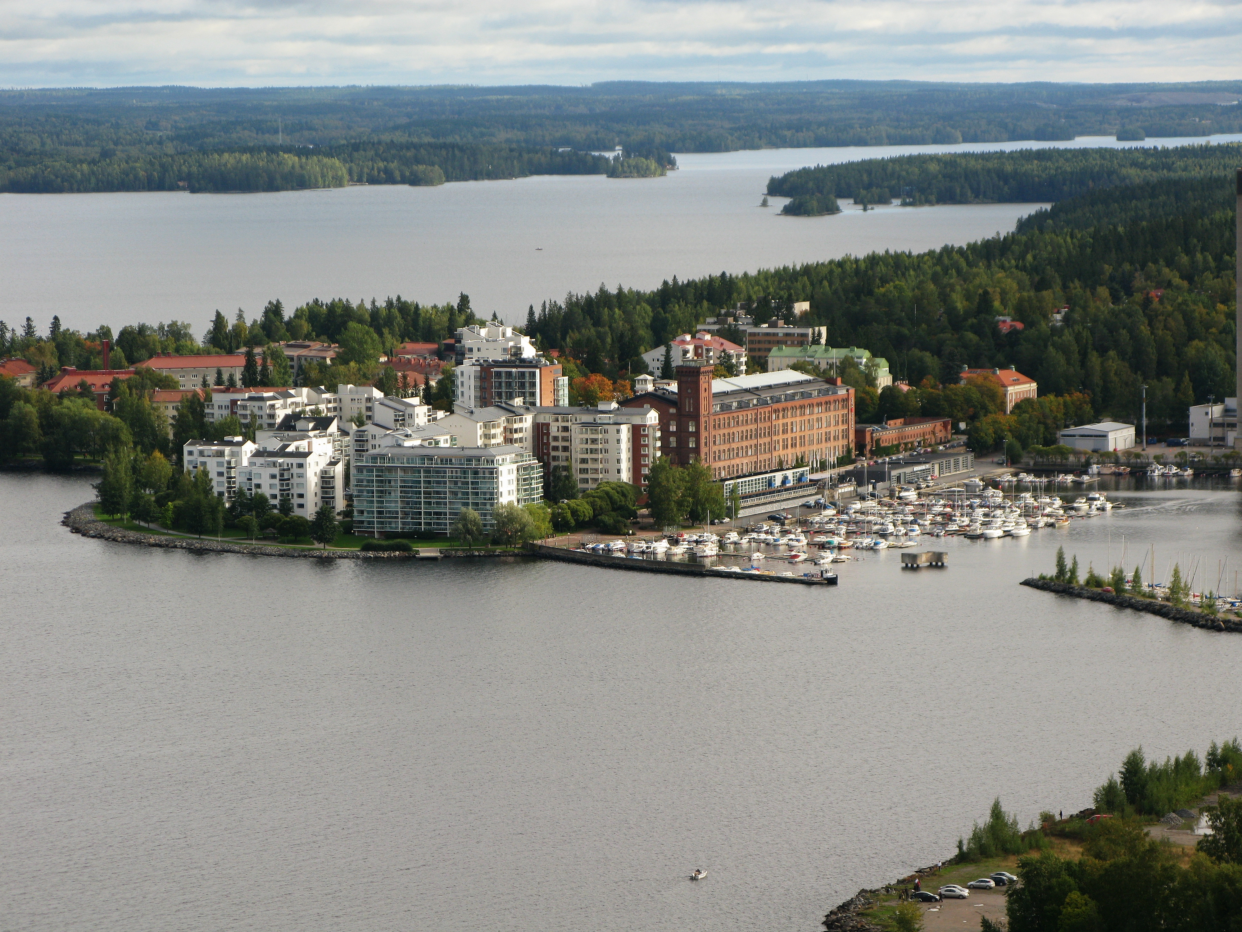 Lapinniemi as seen from Näsinneula tower in Tampere, Finland